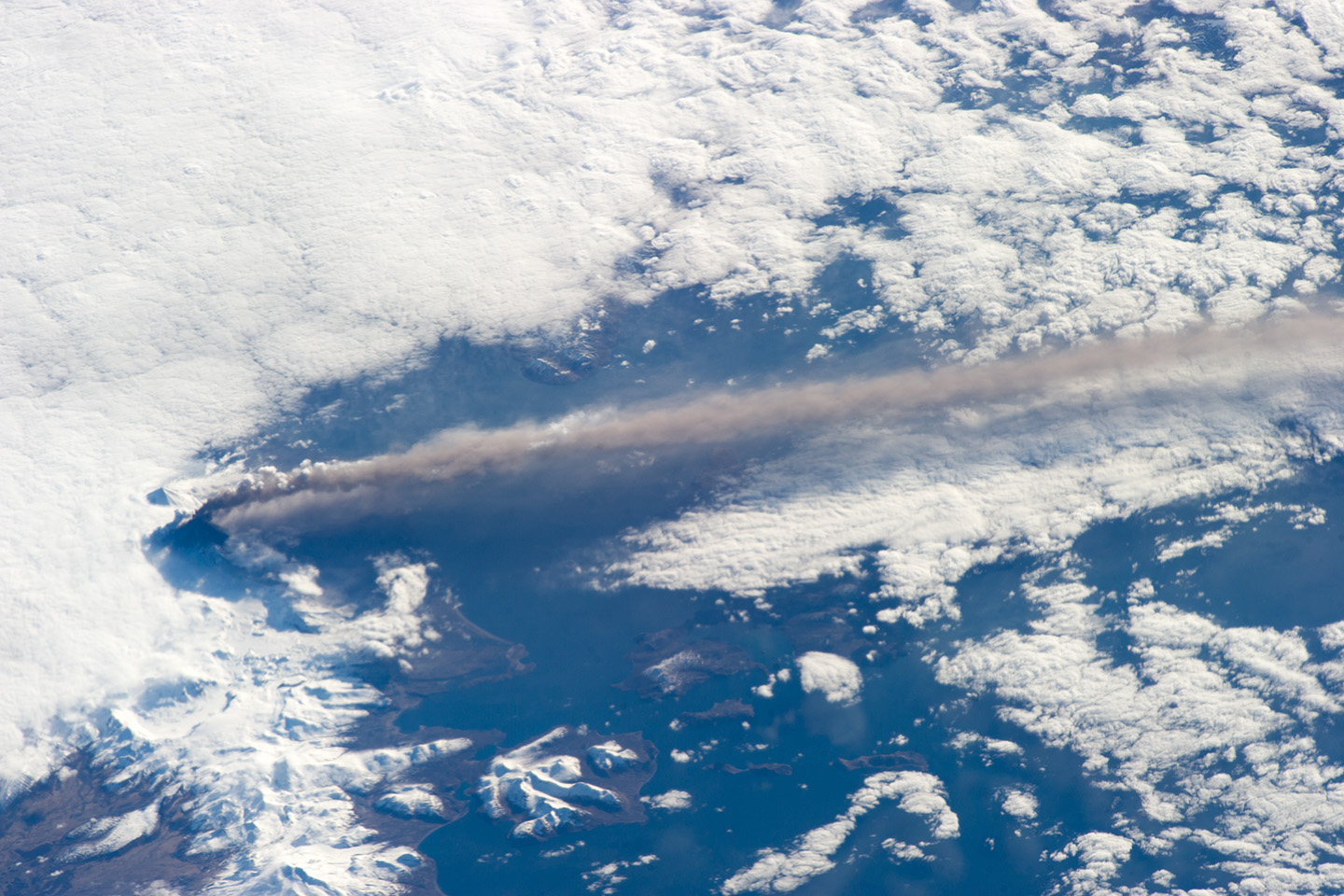 Mount Pavlof from the International Space Station